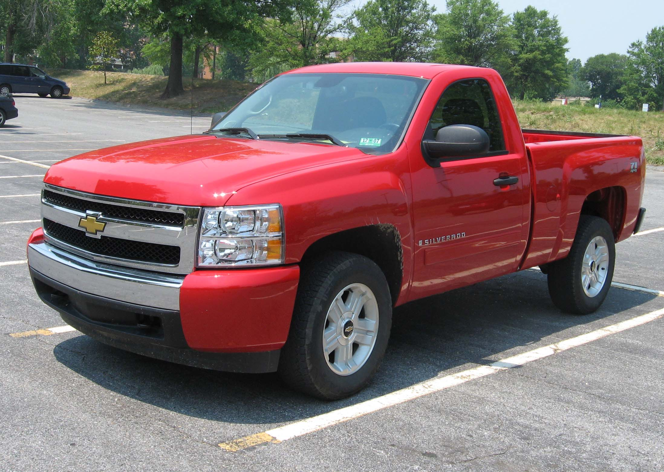 2007 Chevrolet Silverado photographed in USA.